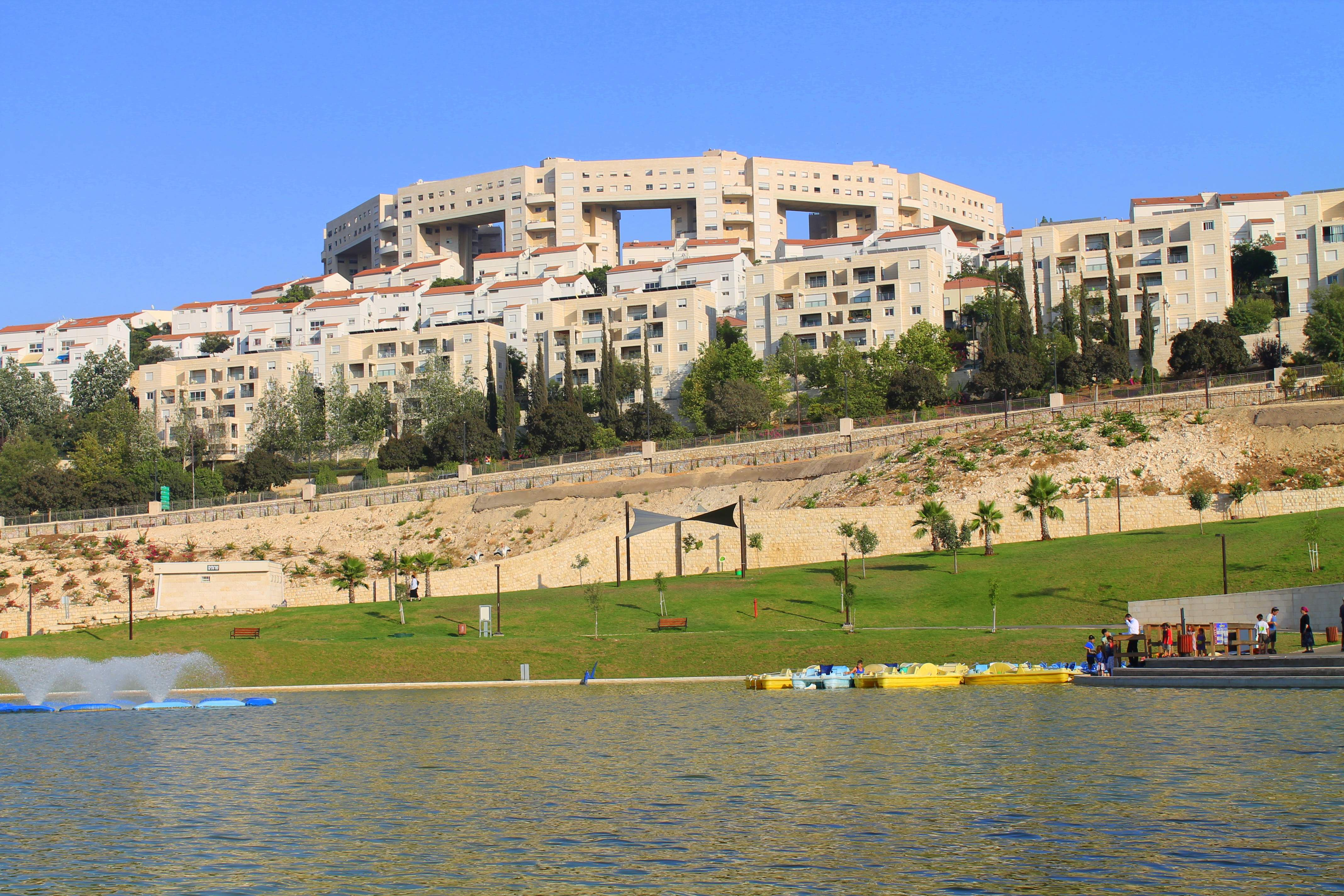 מודיעין ופארק ענבה